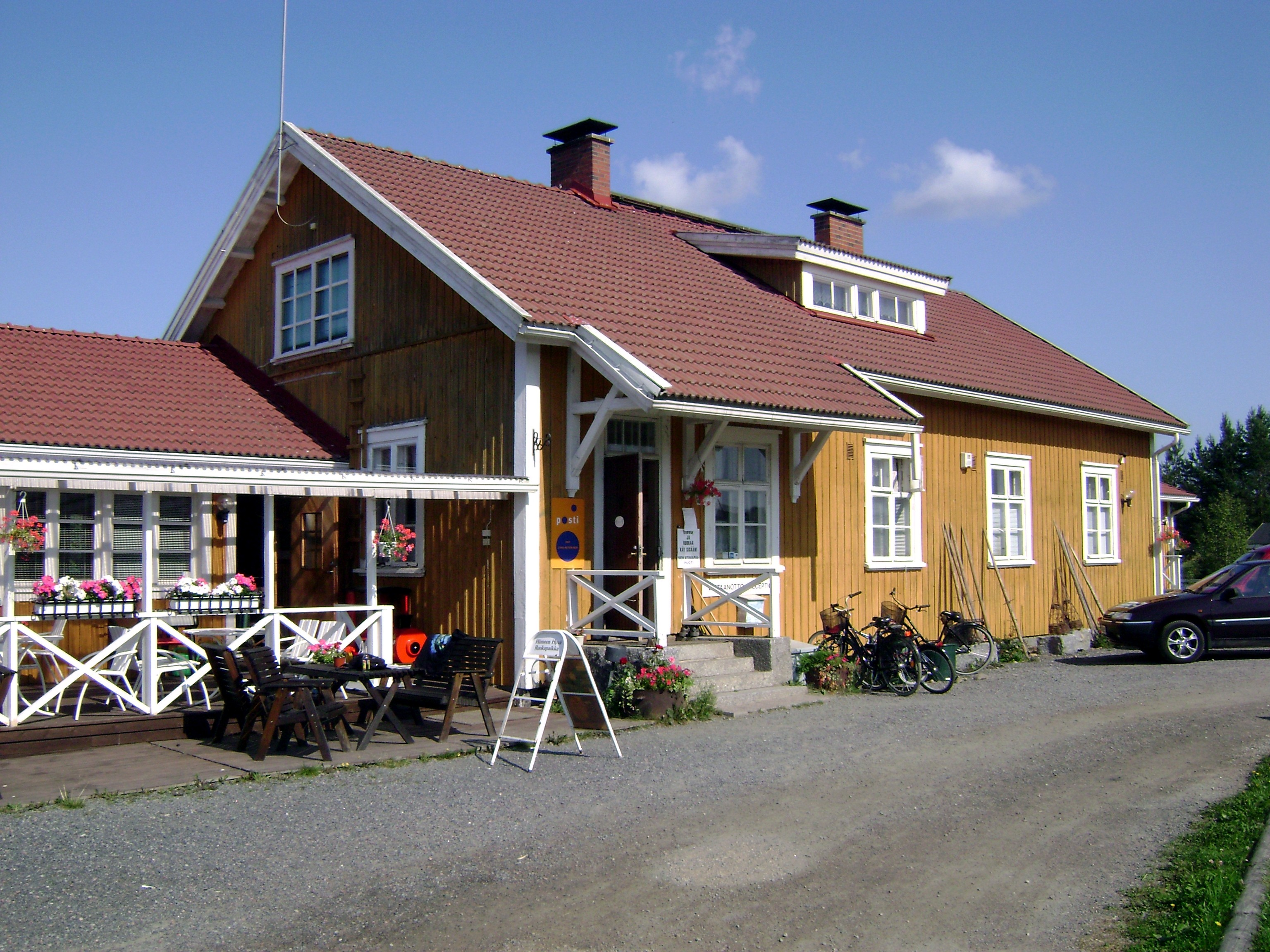 Old Metsäkansa railway station in Valkeakoski, Finland.